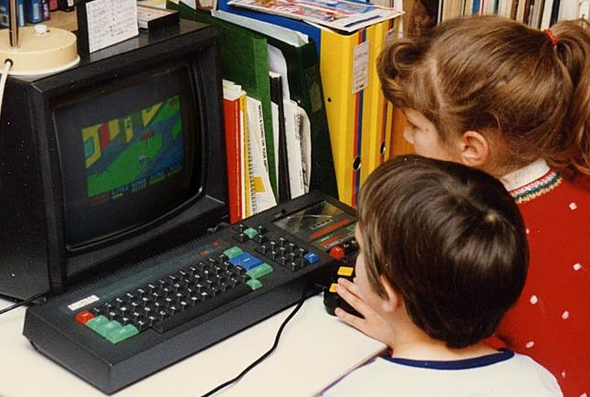 Children playing Amstrad CPC464 computer. Data and programs were input with the built-in tape reader on the right of the keyboard. The game on screen is Paperboy.